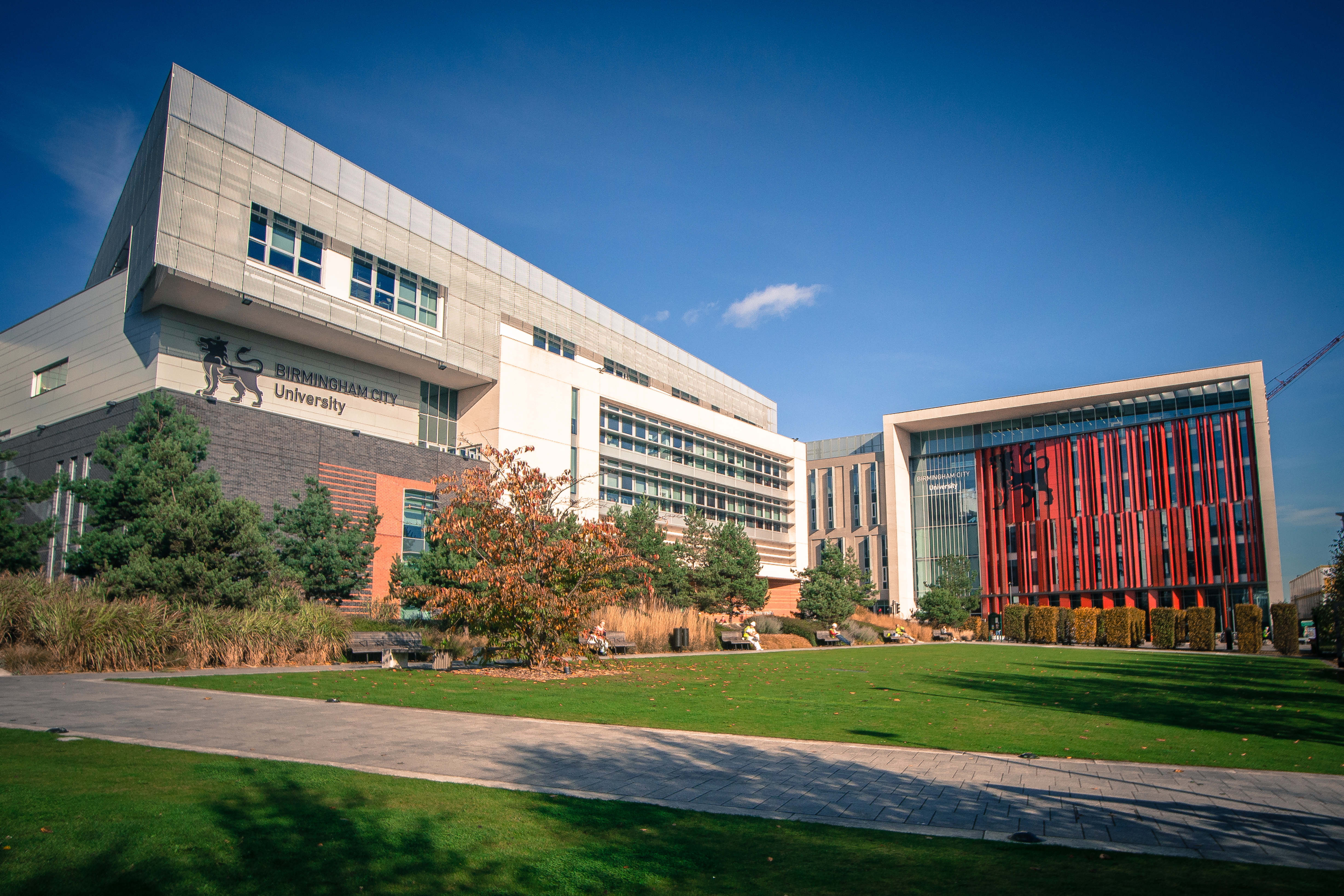 The Parkside Building and the Curzon Building of Birmingham City University as viewed from Eastside City Park.